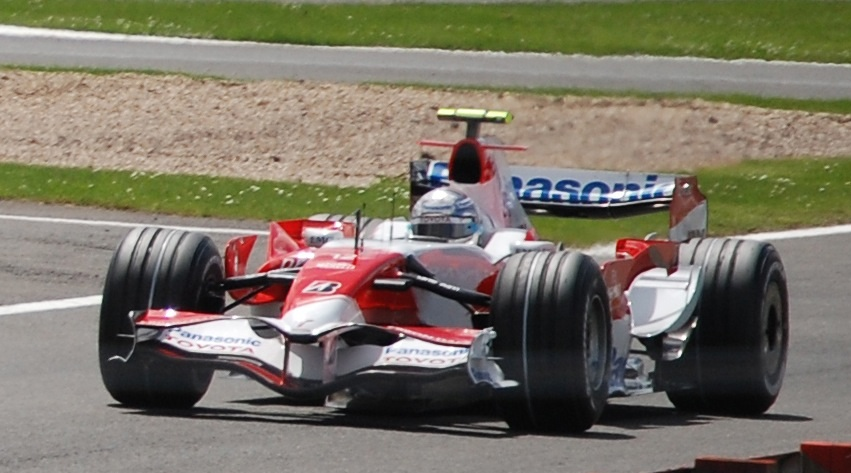 Trulli makes for the pits